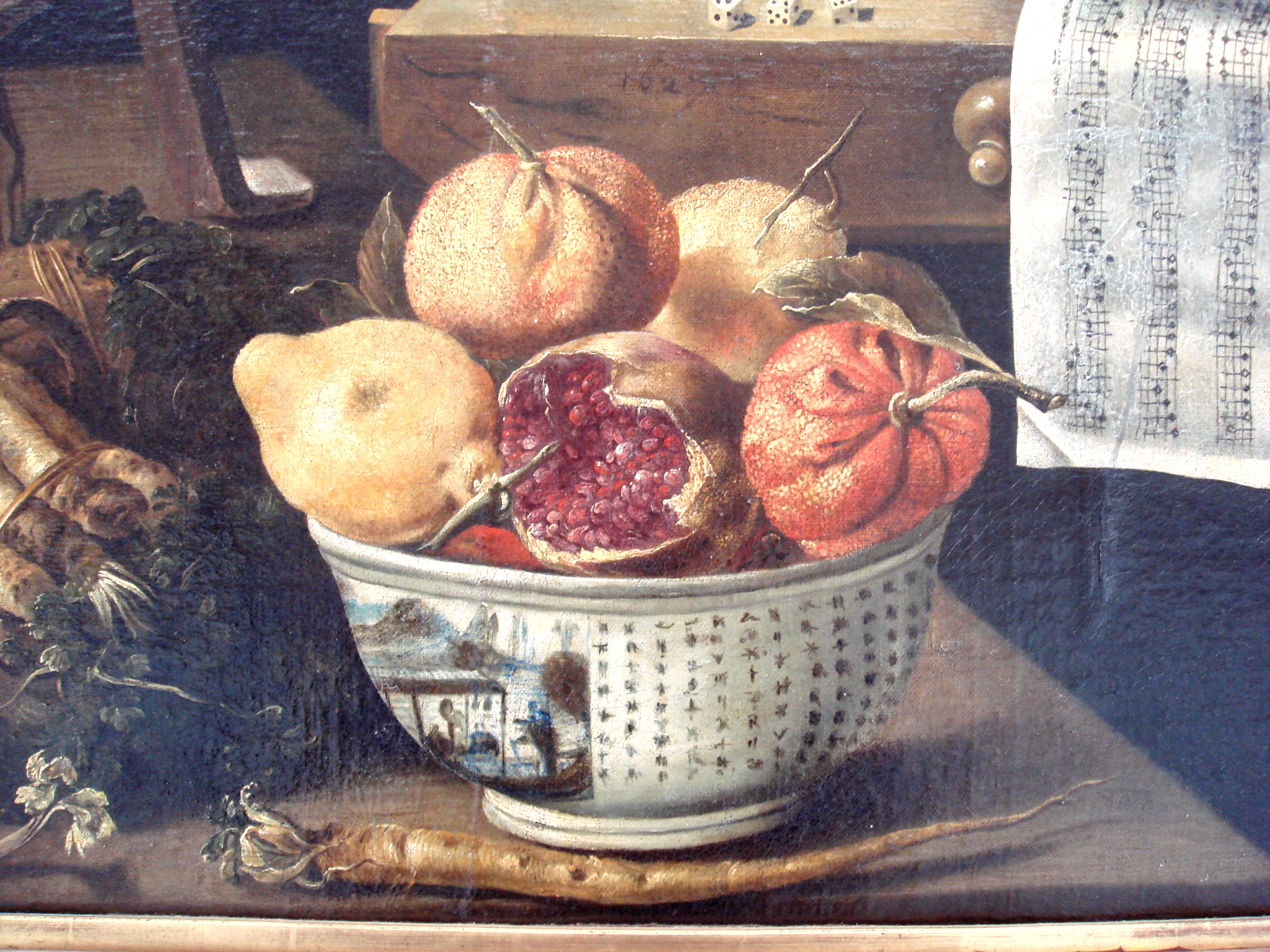 Jacques_Linard_Les_cinq_sens_et_les_quatre_elements_1627